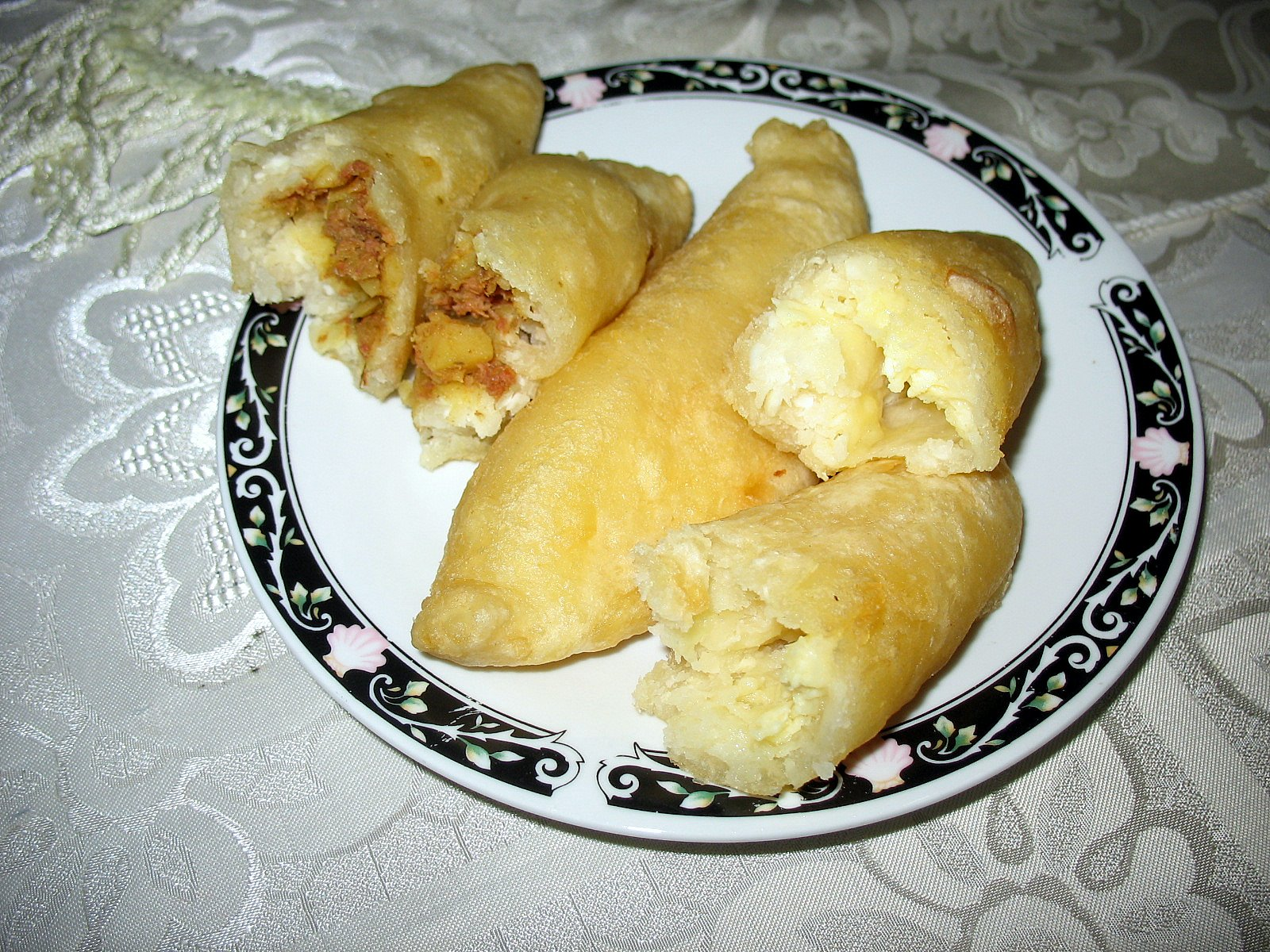 Inside of carimañolas